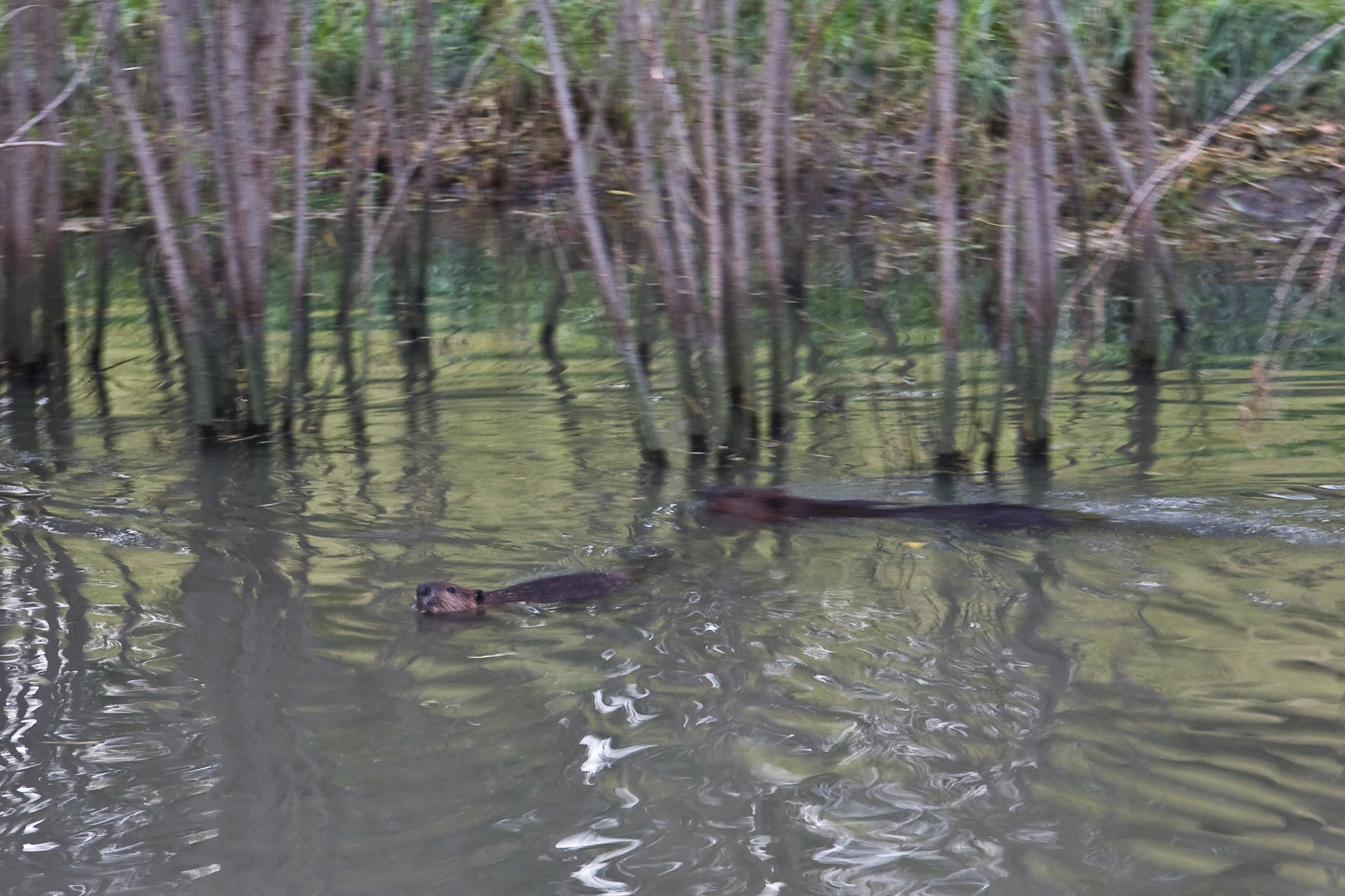 Beavers at North Agincourt Park... I still can't believe they had beavers there.... Its a shame my lens only went to 55mm so I couldn't really take any close up pictures and its also kind of blurry cause I forgot to change my aperture. But yes, proof that beavers exist in that park!! haha!